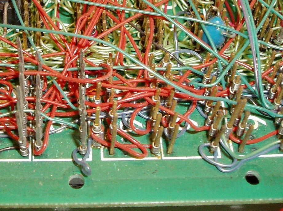 Computerboard Wire-wrap backplane detail (close up), Double-Europe card size